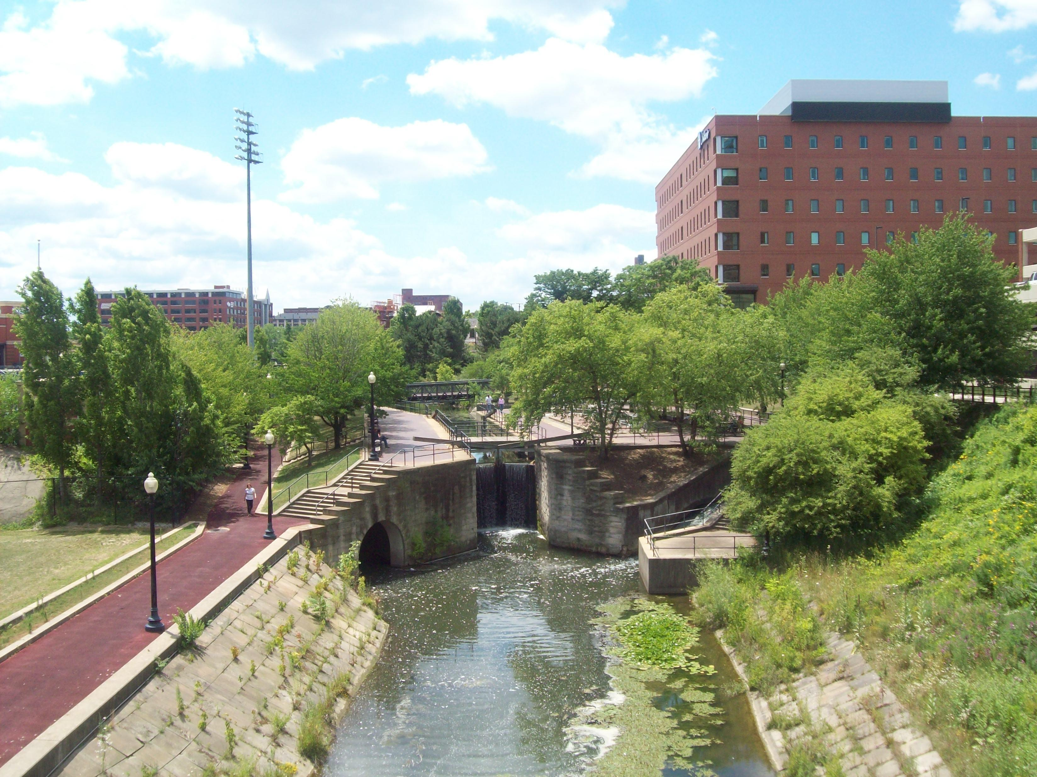 Lock 2 Park in Akron, Ohio, United States.